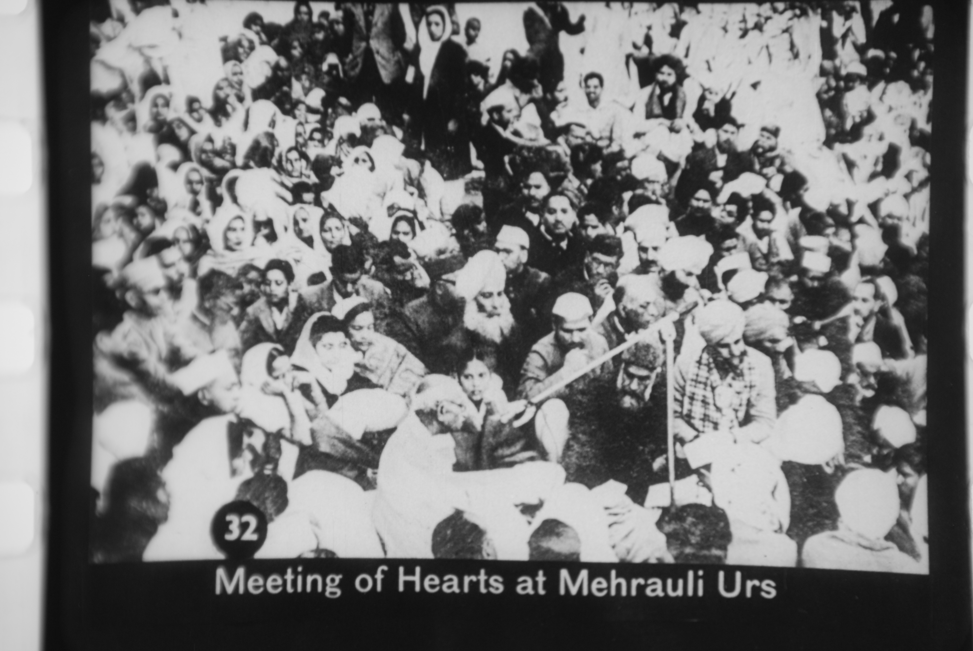 Gandhi visiting Mehrauli, 7 km south of Delhi, at the Qutbuddin Bakhtiar Kaki shrine, 27 January 1948.